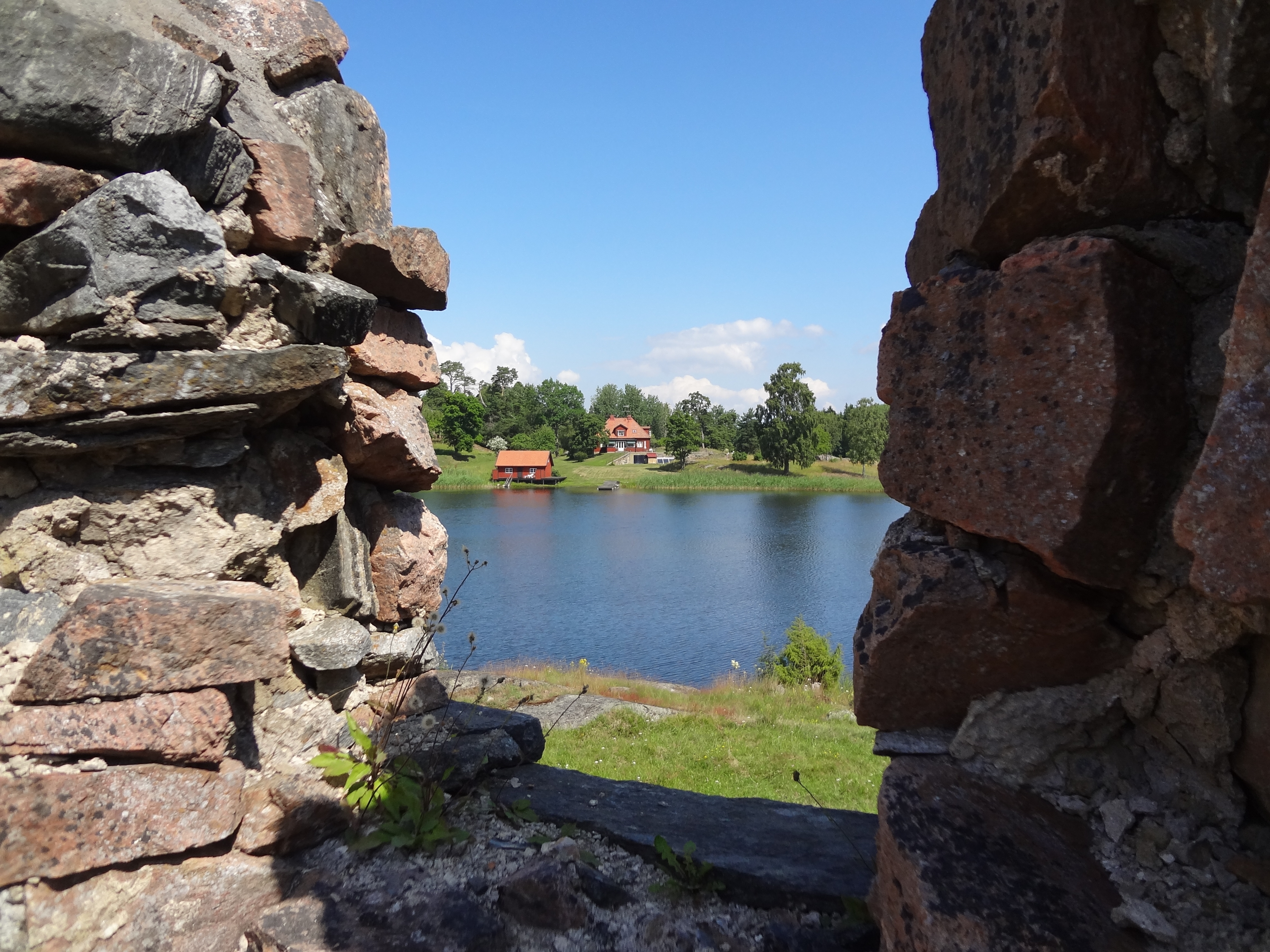 The old house of Sundby Gård in Ornö, Stockholm. The new house is located across and beyond the house seen on the picture. 2011.